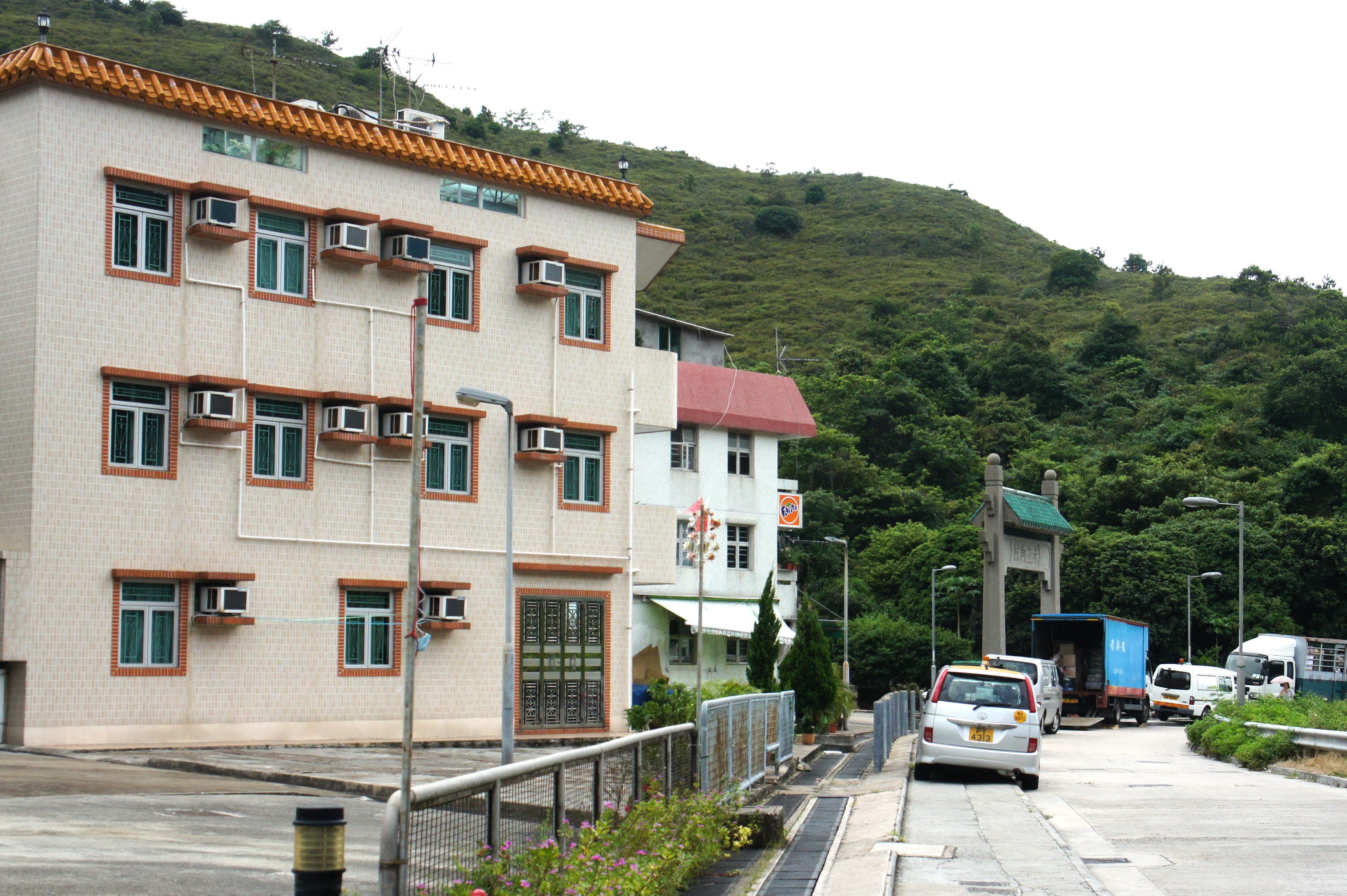 Chek Lap Kok New Village, Tung Chung, Lantau Island, Hong Kong.